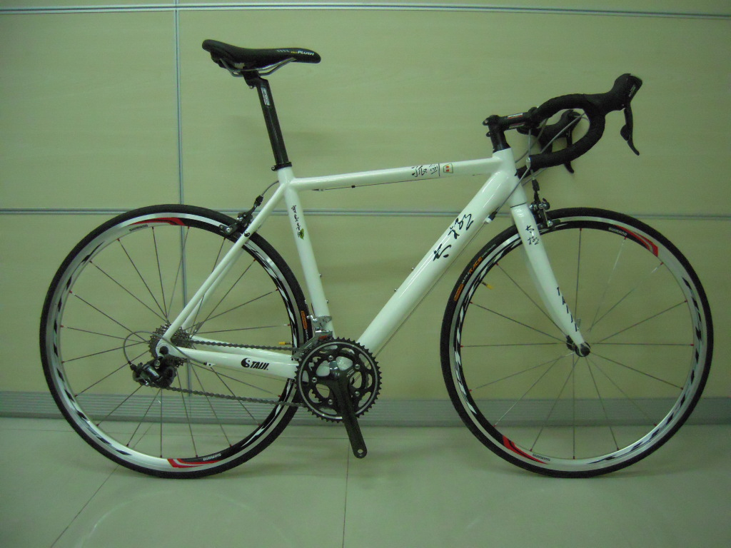 Welcome to take a look. hope you will like it very much. Tks!